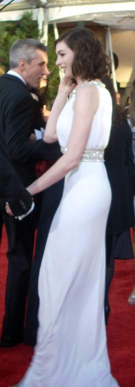 Actress Anne Hathaway, nominated for "Rachel Getting Married", at the 15th Screen Actors Guild Awards